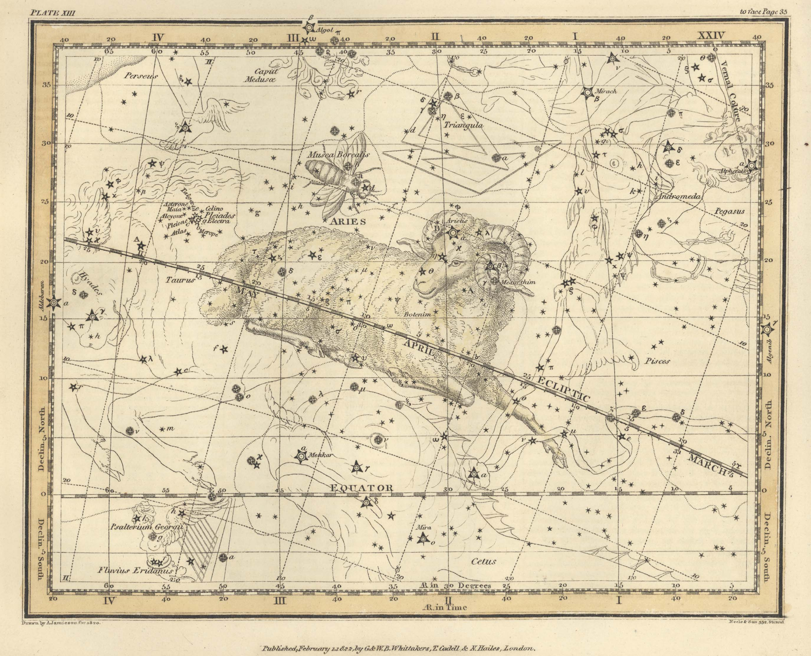 Plate 13 from A celestial atlas comprising a systematic display of the heavens in a series of thirty maps illustrated by scientific description of their contents and accompanied by catalogues of the stars and astronomical exercises